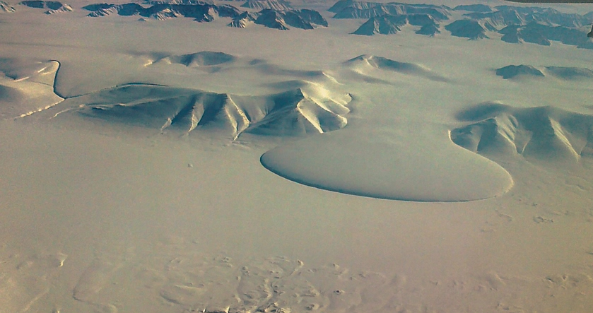 5th May 2012: North Polar flight with Air Berlin - Flight back to Northeast Greenland - Elephant Foot Glacier at Romer Lake (Photo by: Basti, Editor: Hedwig)